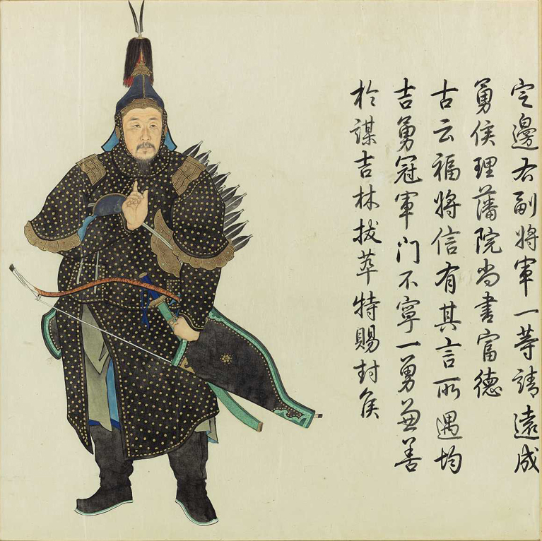 Fude (富德), died 1776, a manchu officer of the manchu plain yellow banner of the Qing Army during Qianlong's era